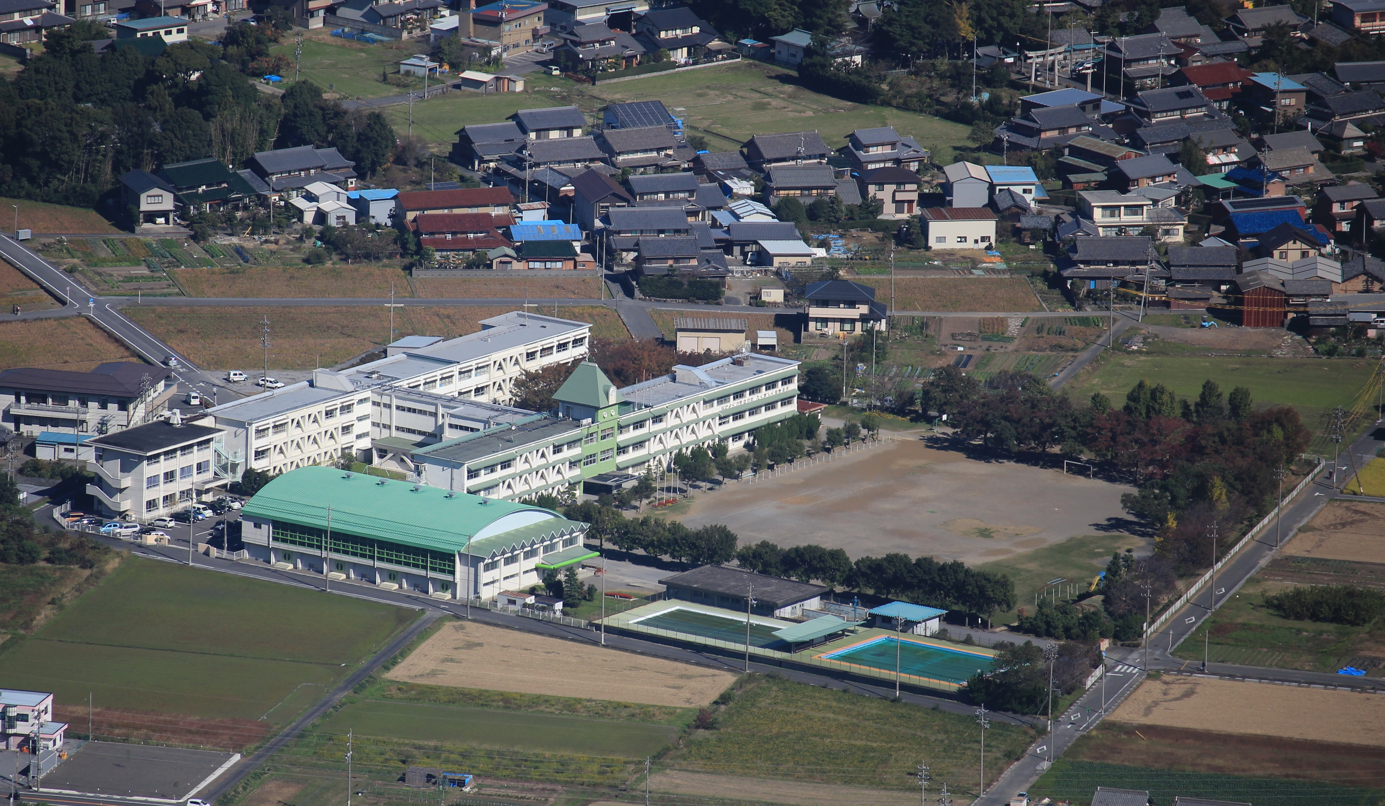 Yoro Elementary School seen from Yōrō Mountains in Yōrō, Gifu prefecture, Japan.